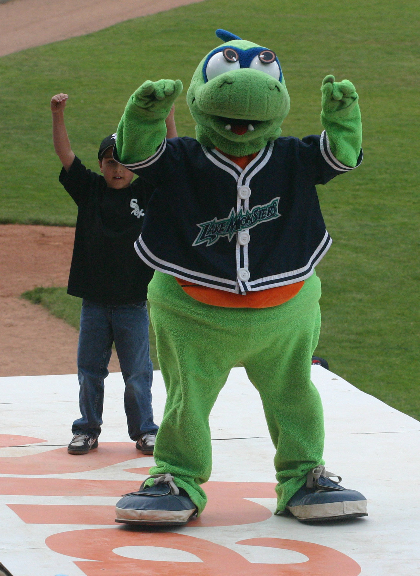 Mascot Vermont's lone Minor League Baseball representing Field the monster of the lake Champlain.